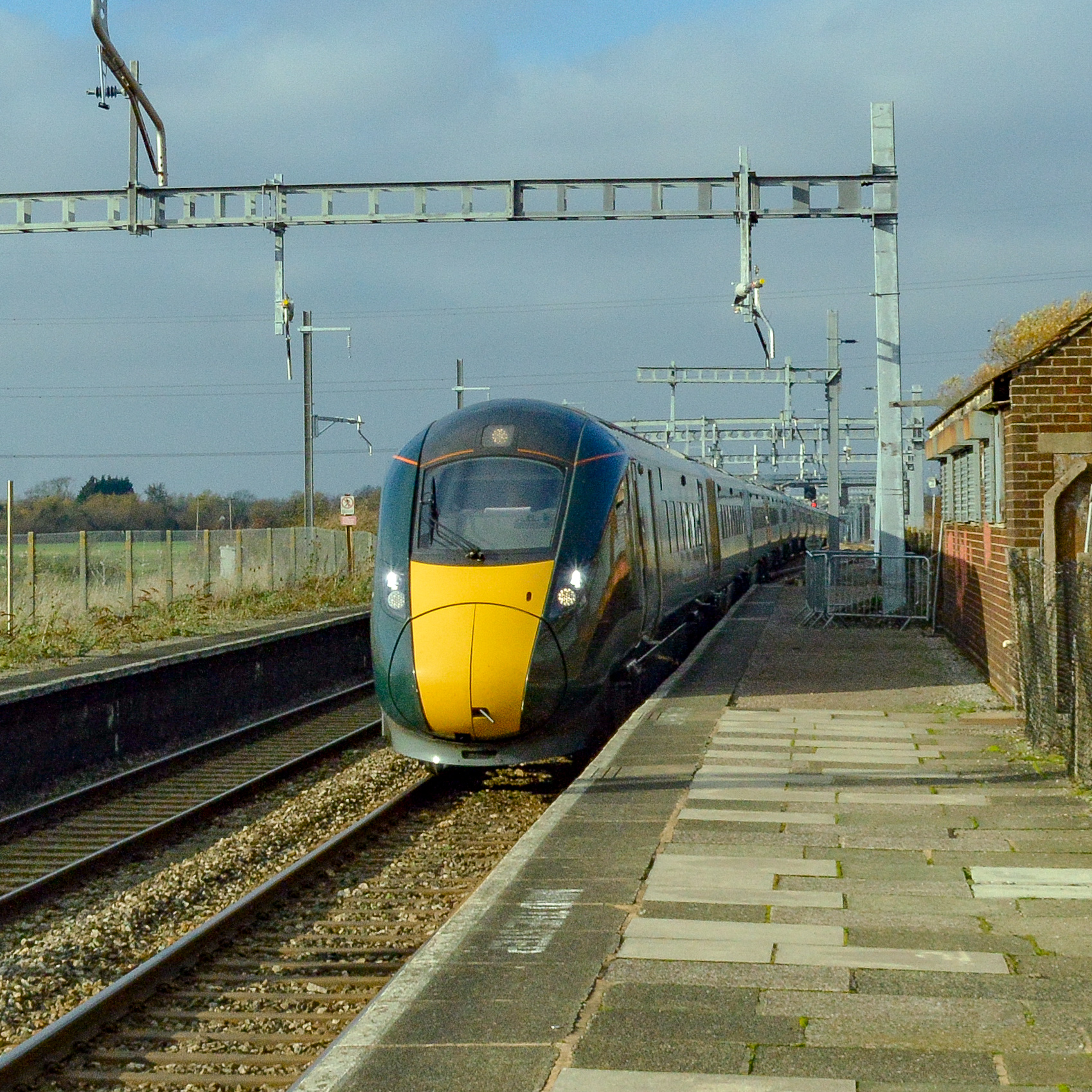 800003 800026 1L52 1029 Paddington to Swansea